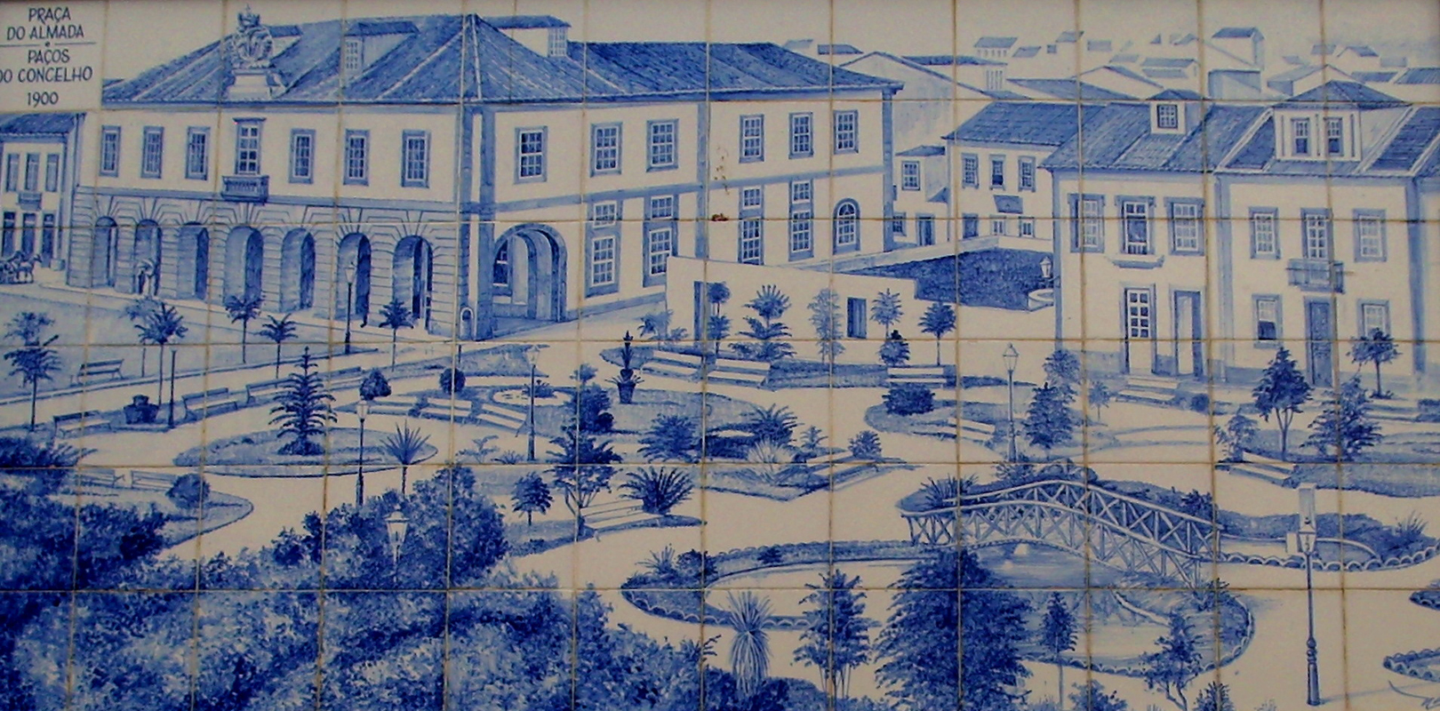 Praça do Almada central Square in Póvoa de Varzim, Portugal